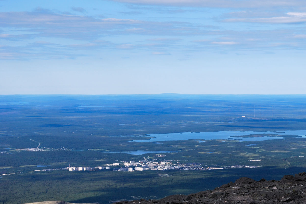 View on Revda from the Lovozero-Tundra.